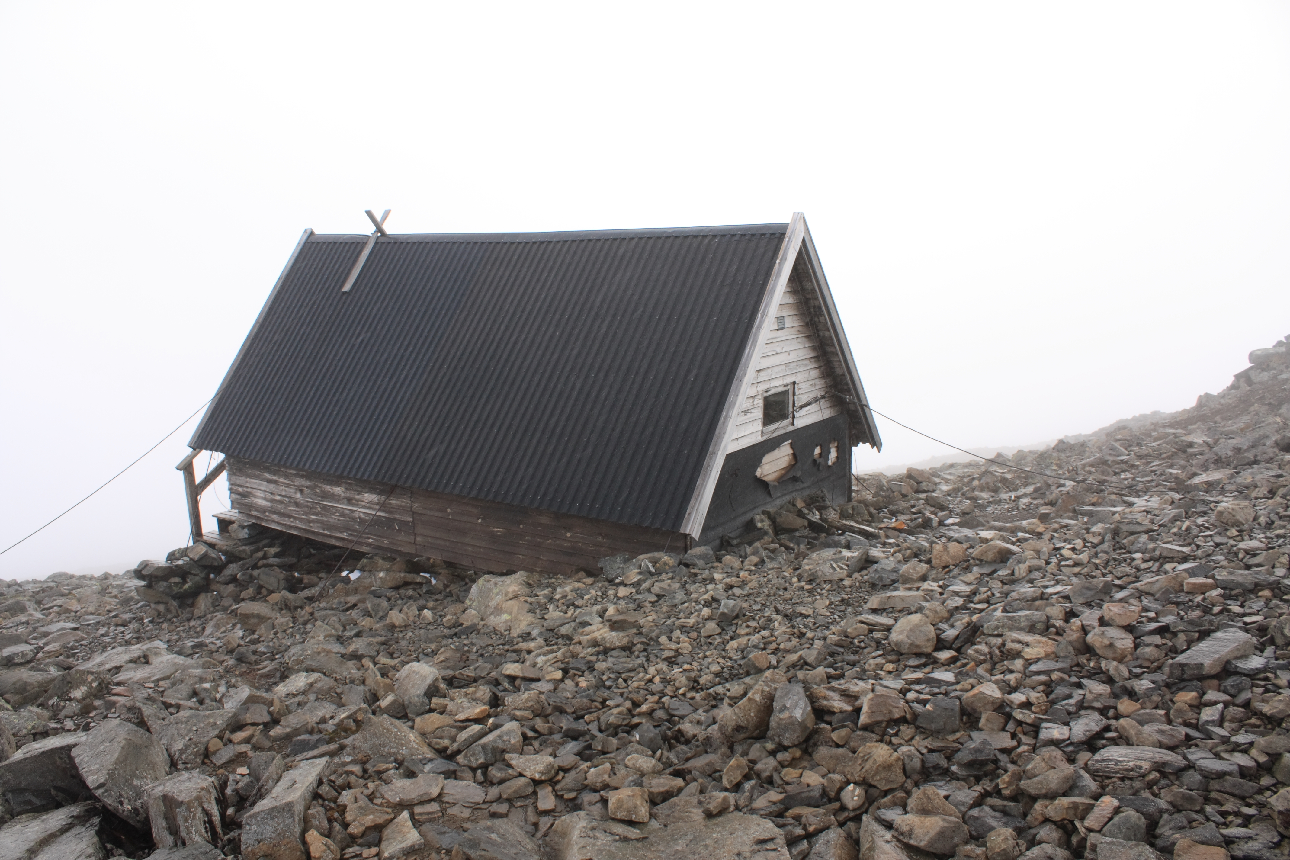 The old top shelter below the south peak of Kebnekaise in northern Sweden.